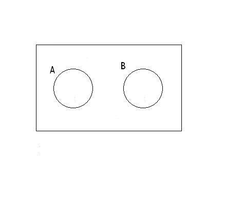 represetación gráfica por diagramas de Venn own work I hereby assert that I am the creator of this contribution and/or it does not violate any third party rights. I agree to publish this text under the GNU Free Documentation License. MONIMINO PARA LIBRE DISPOSICIÓN 28/11/2006